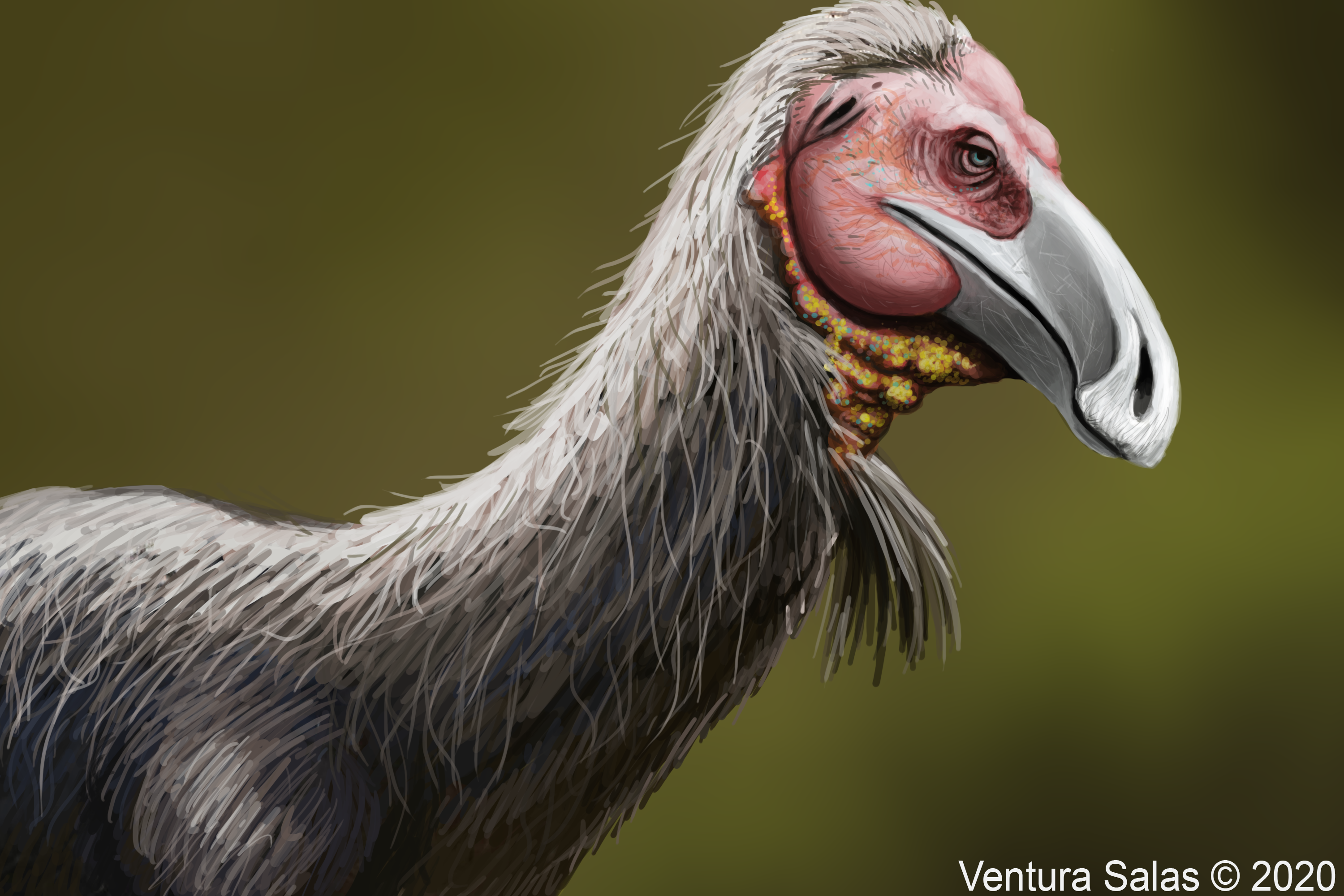 New ornithomimosaur discovered in the Cerro del Pueblo Formation of Coahuila, Mexico. [1]